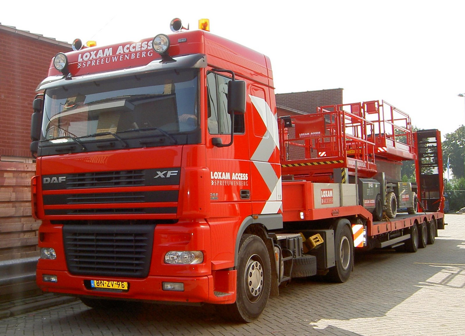 Truck Loxam Access Spreeuwenberg in Vlijmen/Den Bosch in the Netherlands (NL)